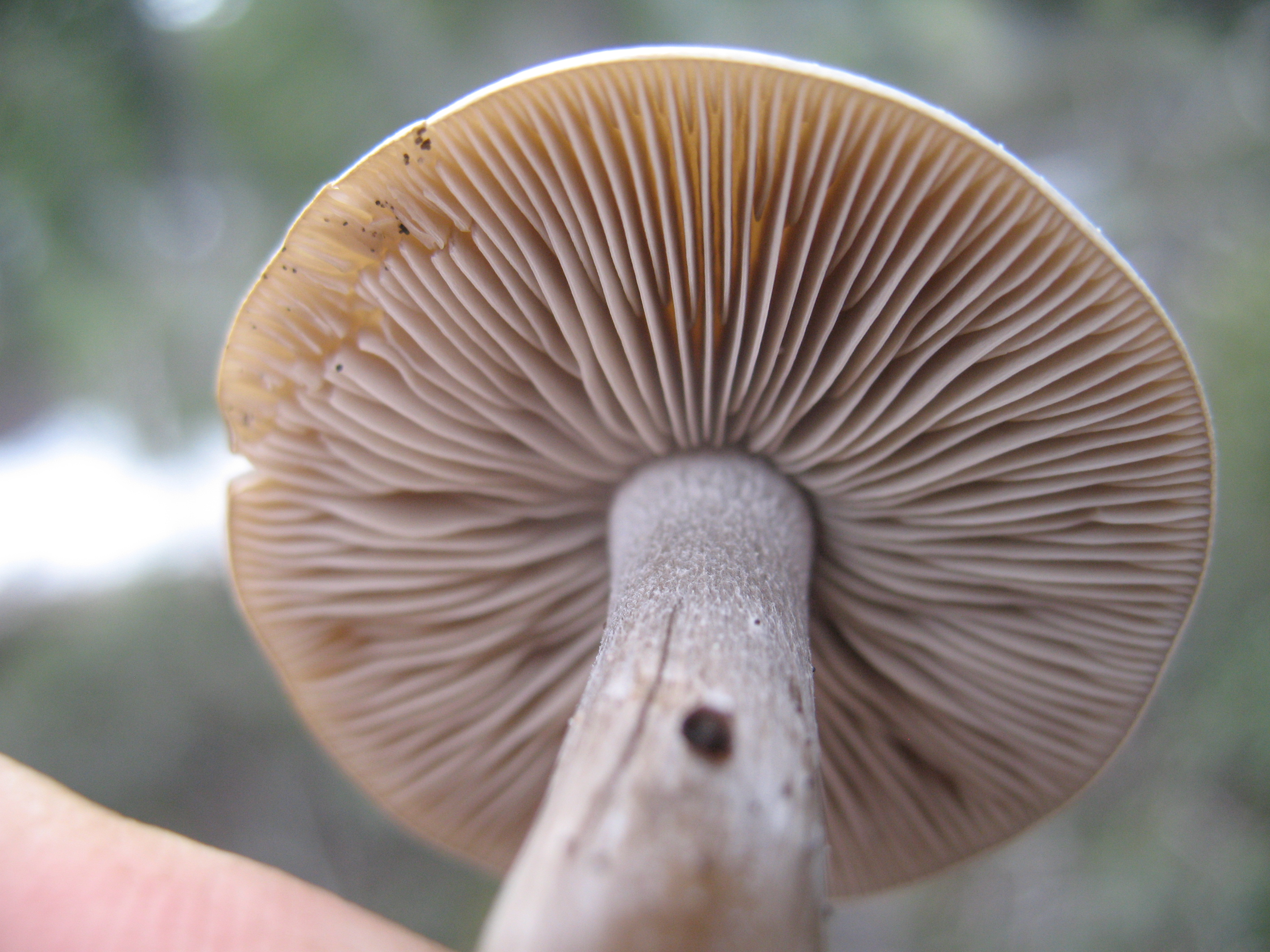 The gills of the mushroom Clitocybe glacialis Redhead, Ammirati, Norvell & Seidl. Photographed in Eastern Shasta-Trinity National Forest, California, USA. Notes: "Surrounded by snowmelt."